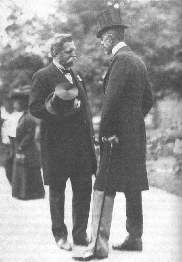 Social democratic politician Hjalmar Branting (1860-1925) and king Gustav V (1858-1950)